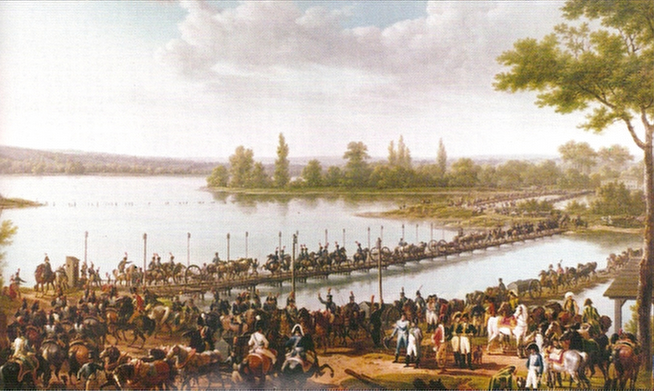 Napoleon leading his troops during the crossing of the Danube before the Battle of Wagram, july 1809